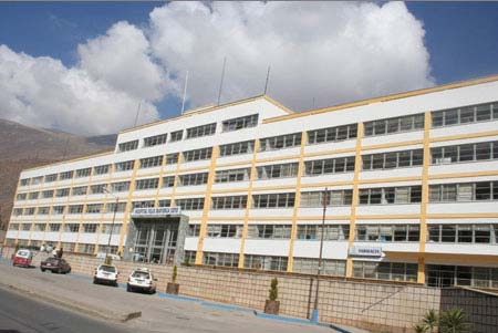 Hospital Tarma